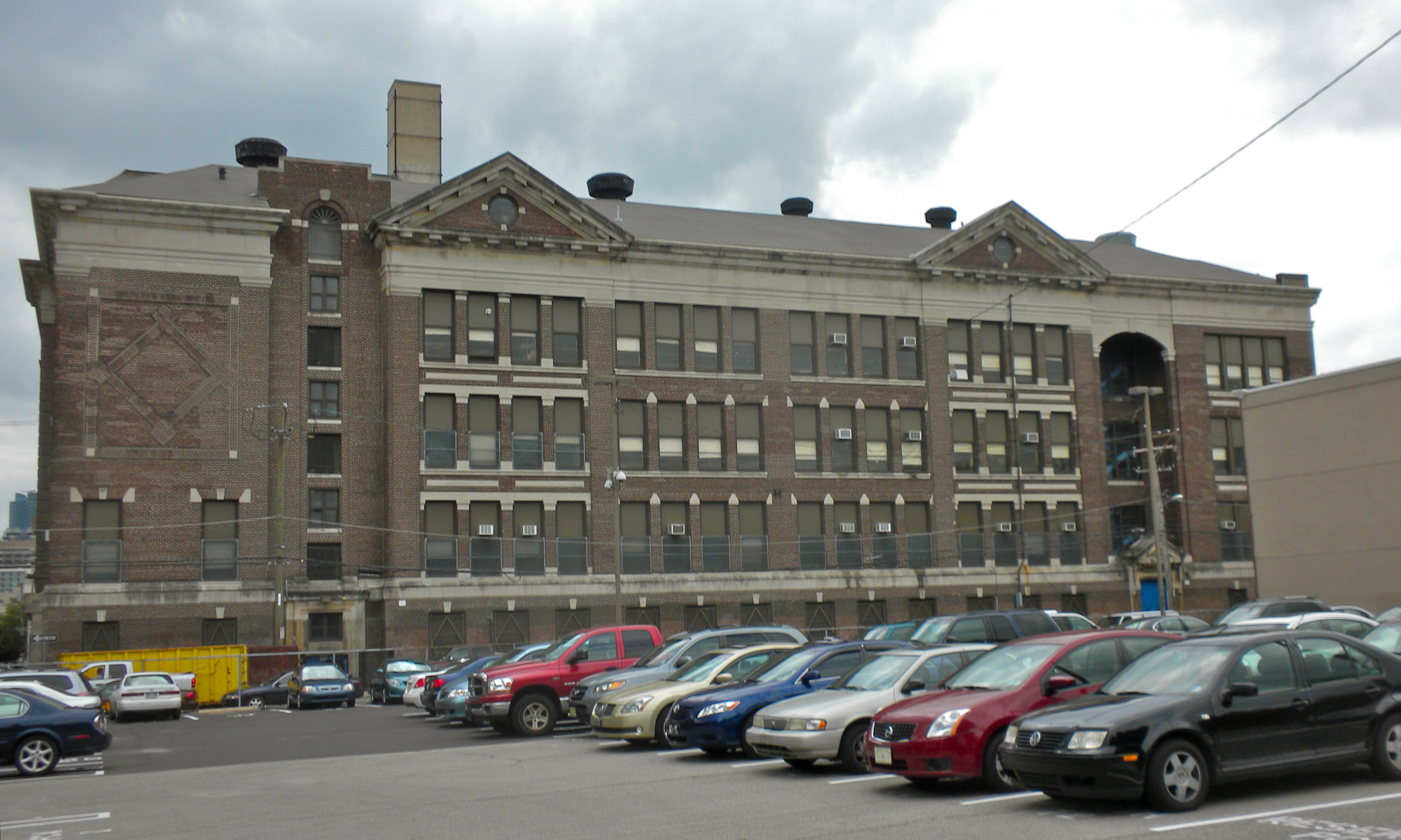 William Penn High School for Girls on the NRHP since December 1, 1986. At 1501 Wallace St., Philadelphia in North Philly neighborhood of Spring Garden. Now known as Franklin Learning Center.